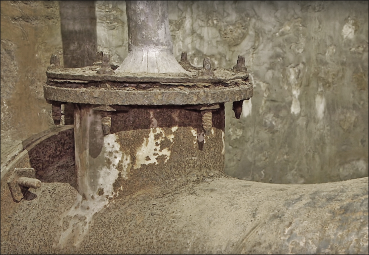 Connection lead pipe on cast iron tube.